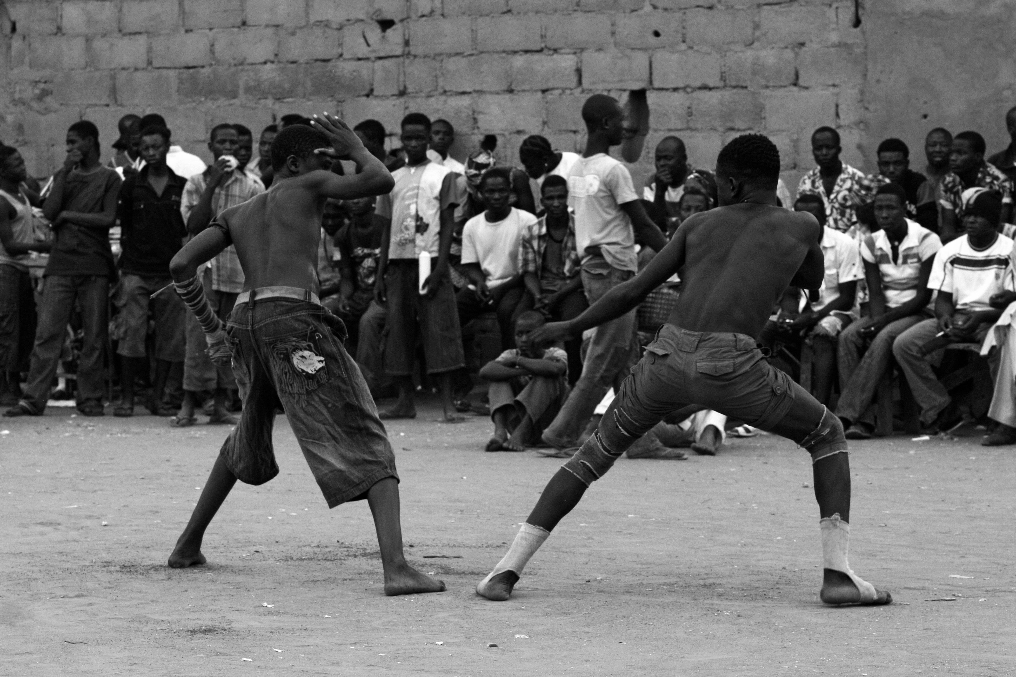 Sometimes, dambe reminds one of capoeira - static dancelike poses.